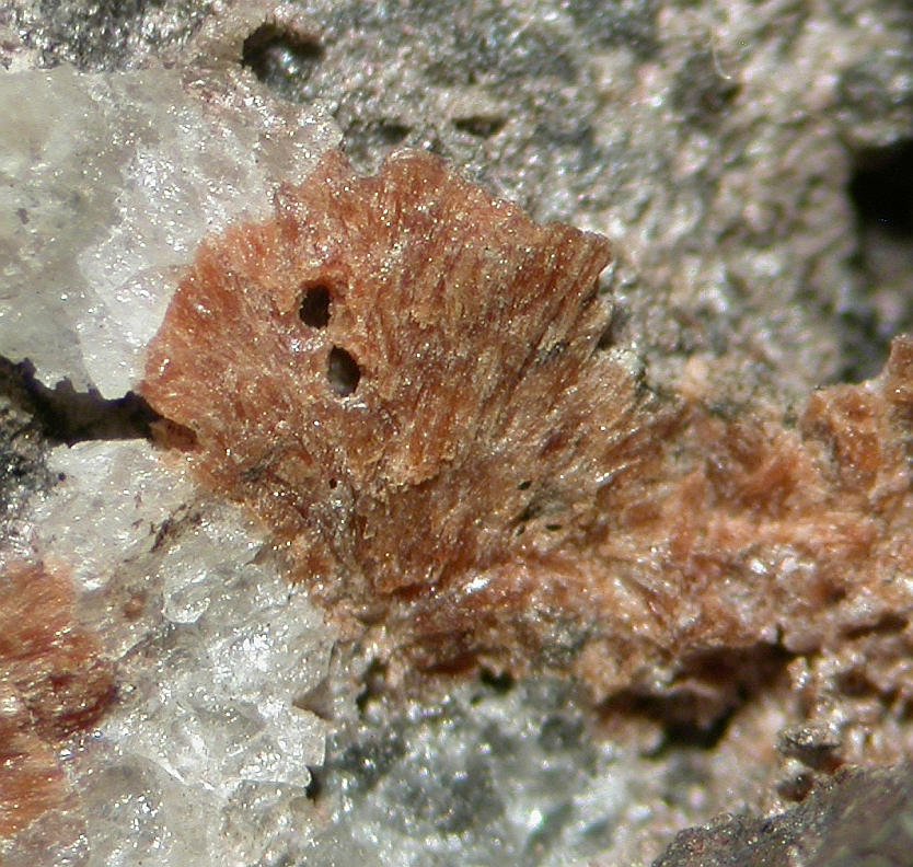 Cabalzarite Locality: Falotta, Tinizong (Tinzen), Oberhalbstein (Surses; Sursass), Albula Valley, Grischun (Grisons; Graubünden), Switzerland Field of view 4 mm.